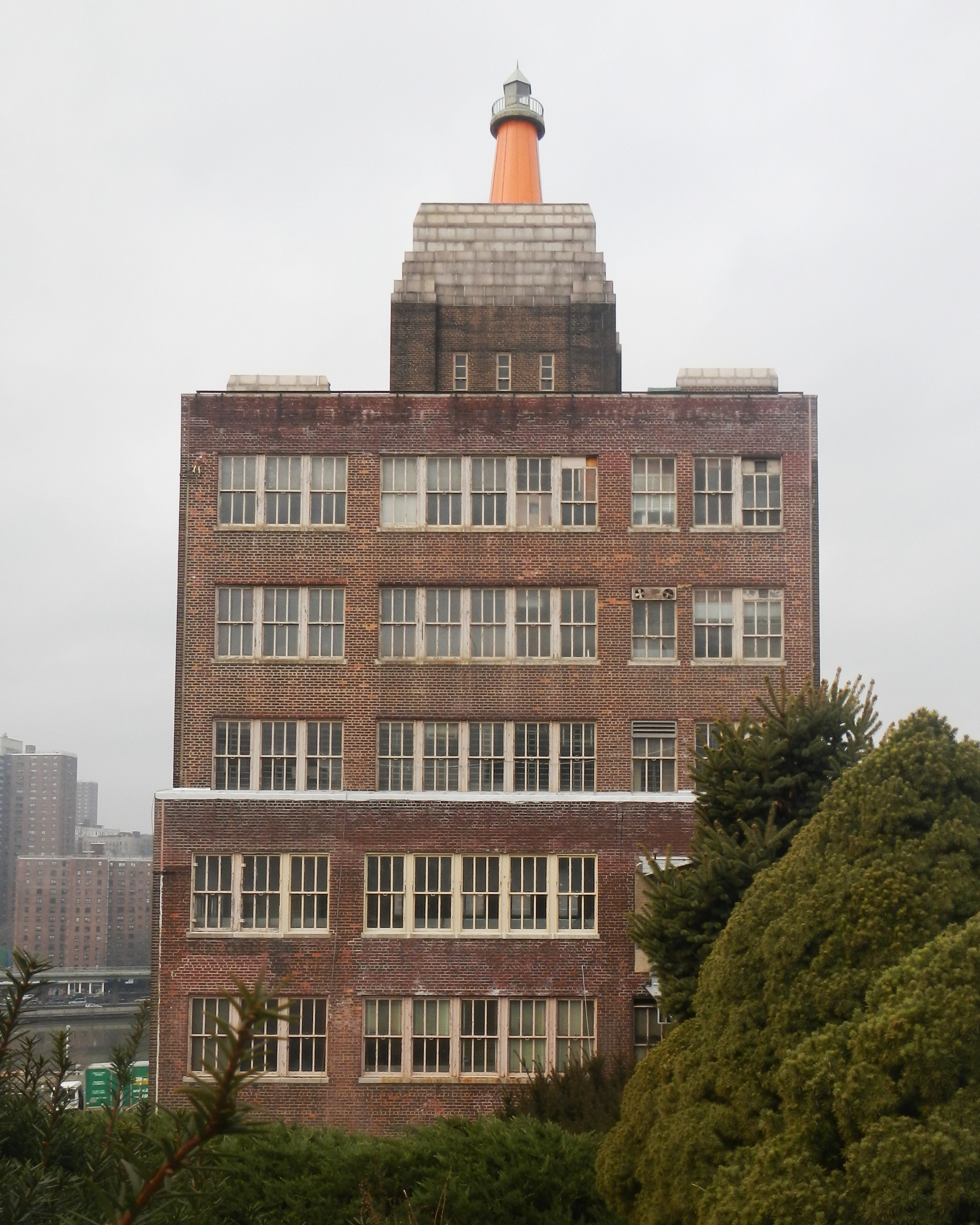 Looking west from Summit Avenue at former publisher, now self storage, on a cloudy day.